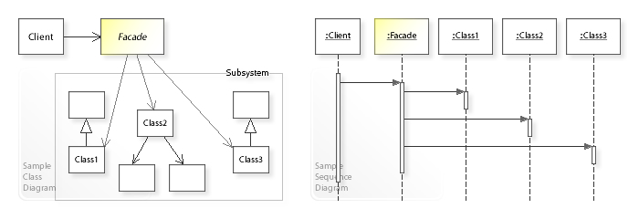 A sample class and sequence diagram for the Facade design pattern.